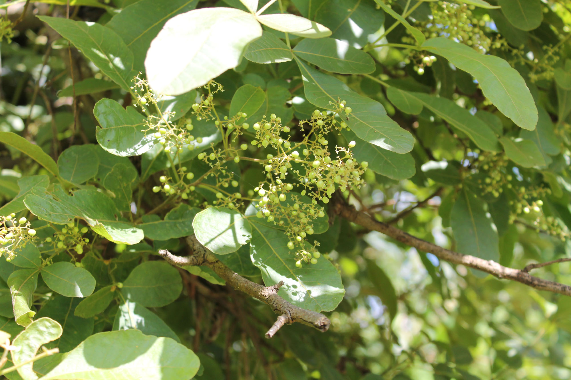 Toxicodendron parviflorum fruit in Kavrepalanchok District.